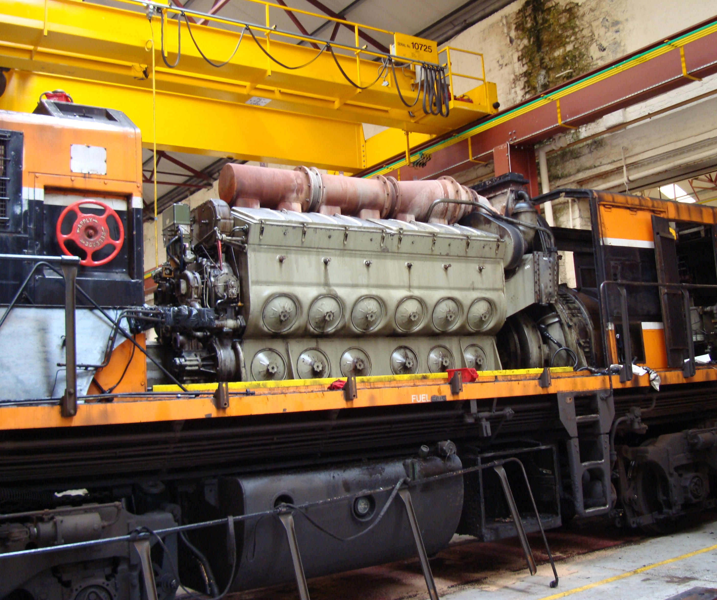 EMD 12 cylinder 645E3 turbocharged engine as installed in 071 class locomotive number 083. Cropped to remove a person who was in view in the original.